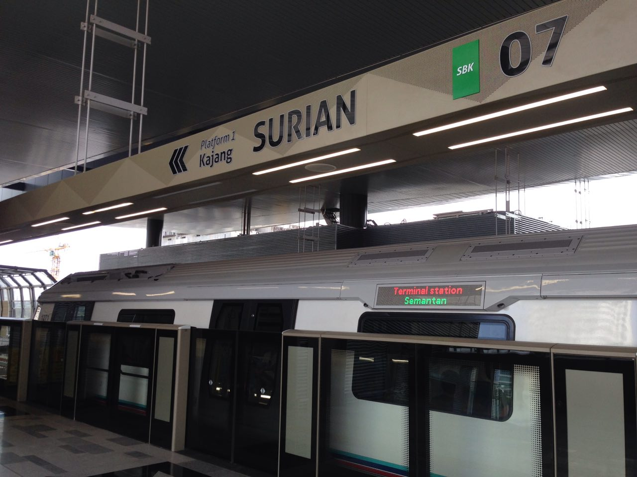 MRT SBK Surian platform